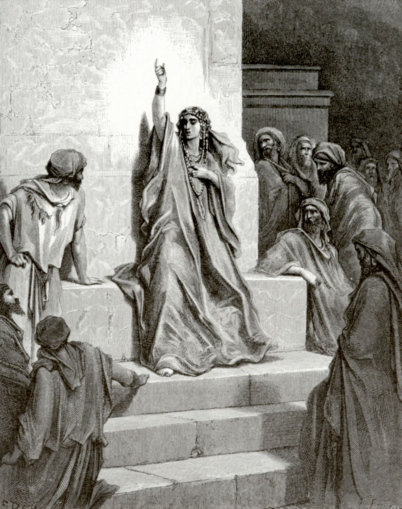 Deborah's Song, Judges 5. Wood engraving